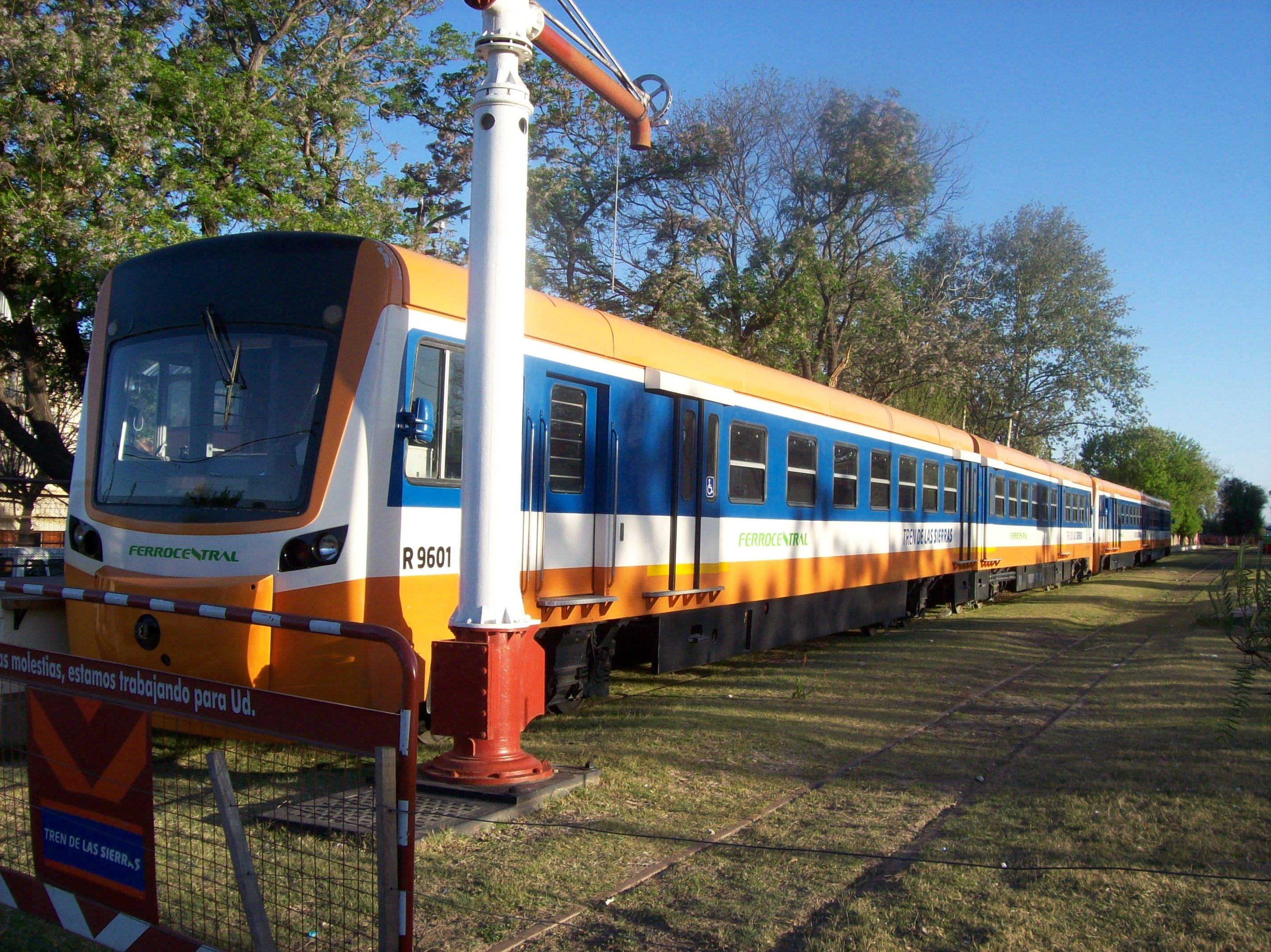 A "Tren de las Sierras" railcar by Alstom, stopped at Cosquín station. The service was operated by local company Ferrocentral.